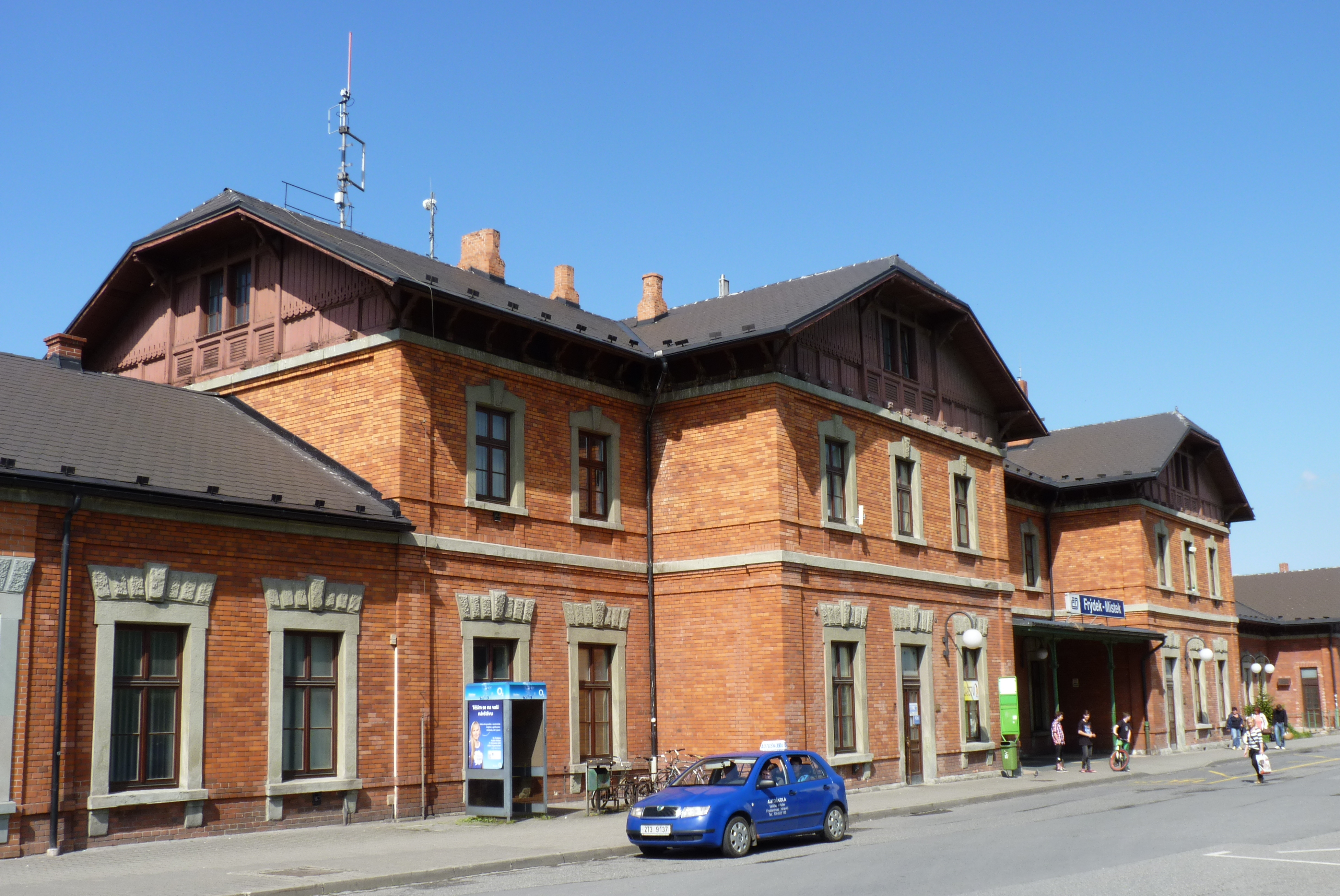 Train station. Frýdek-Místek, Moravian-Silesian Region, Czech Republic Project: Chráněná území